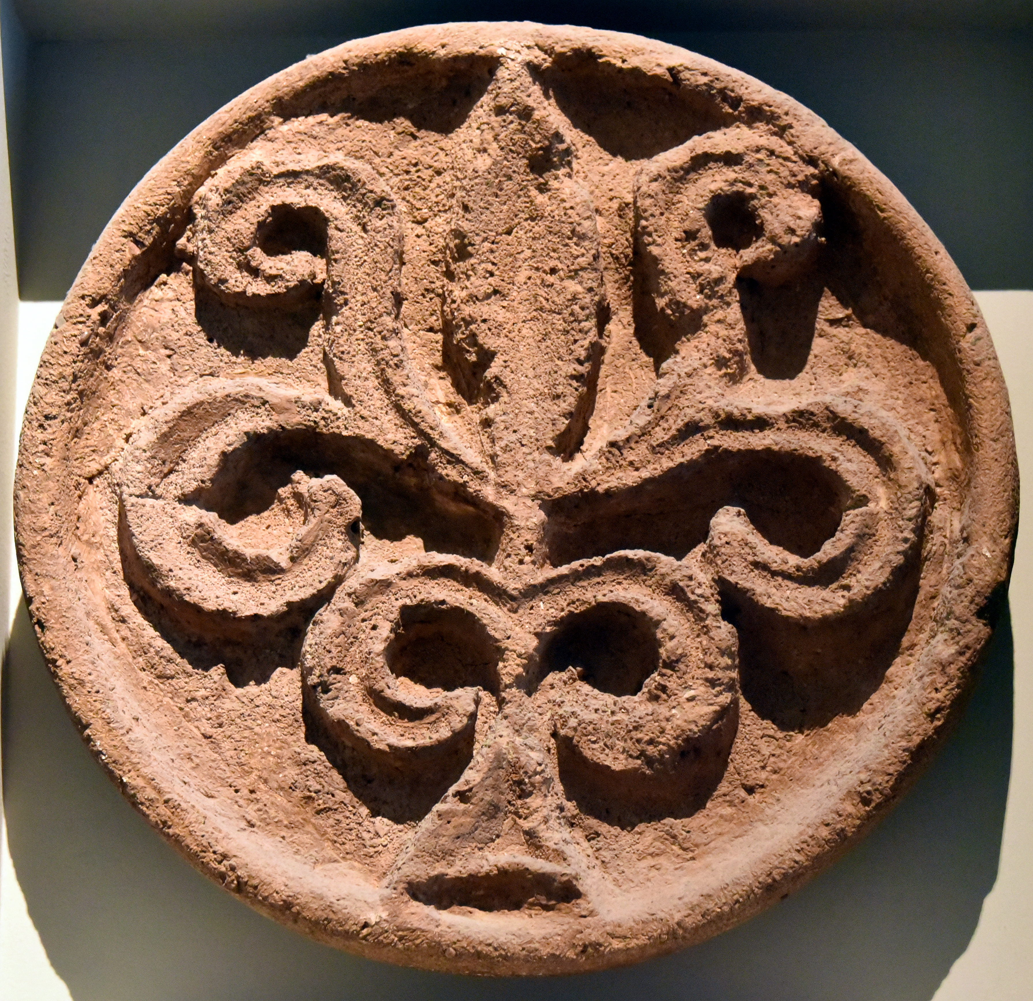 Stucco. Rossette with a tree motif or alternating leaves and blossoms, once decorated the Ummayad Building of Qasr Al-Kharanah, Jordan. Located in the main rooms on the upper floor. They were set into frieze at cornice level and in semi-domes. Early 8th century CE. Pergamon Museum.